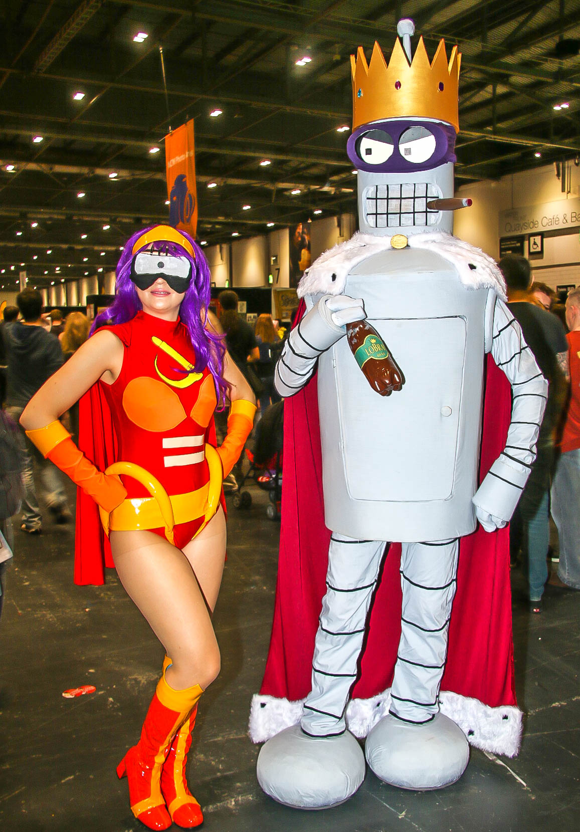 Cosplay at MCM London Comic Con in May 2016.